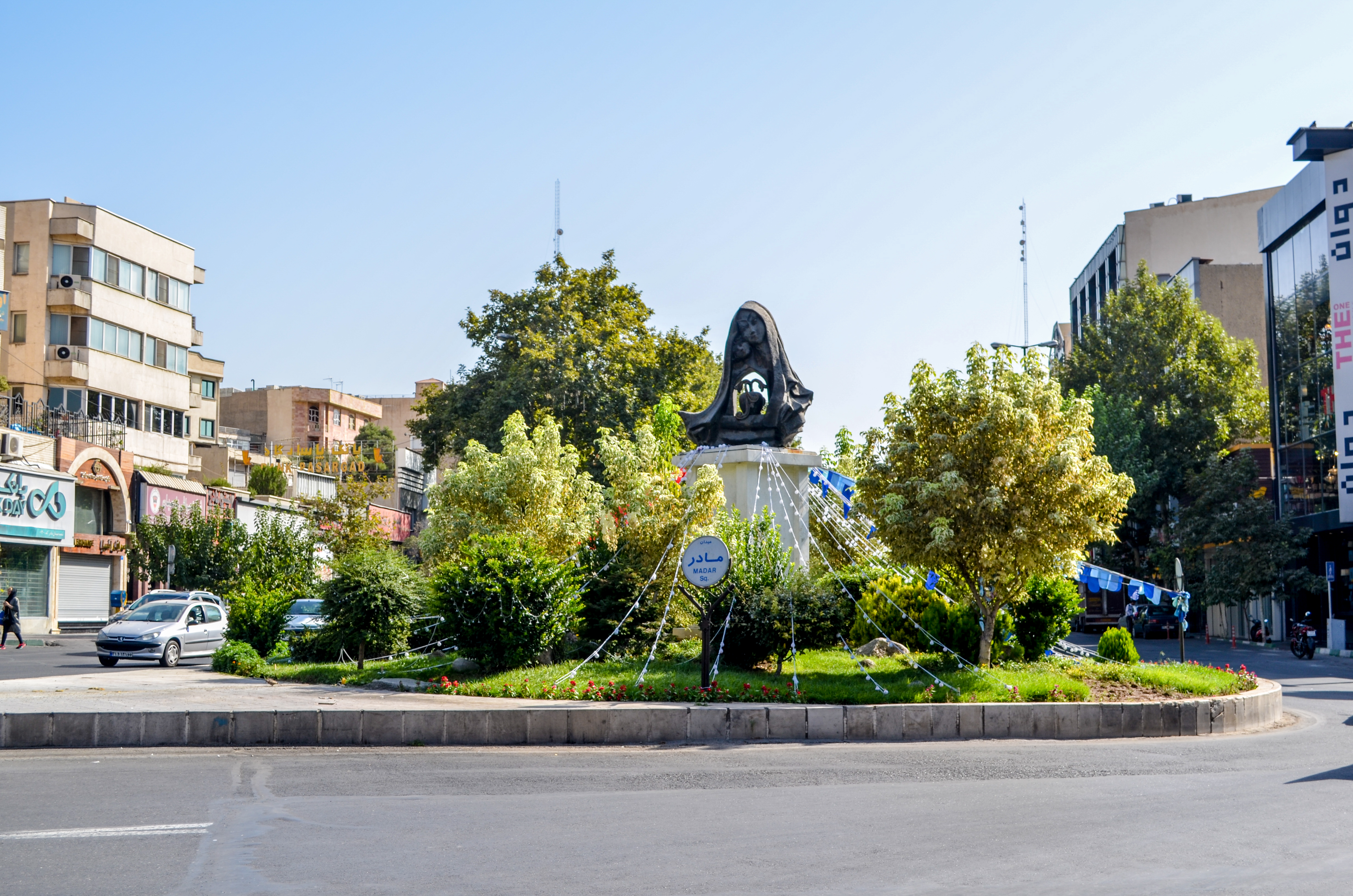 Mother Square AKA Mohseni Square in Summer 2018. The Mother statue is made by Zahra Rahnavard. installed at District 3 of Tehran, Iran. Address: Mother Square, Mirdammad Avenue, Shariati Street, Tehran, Iran.